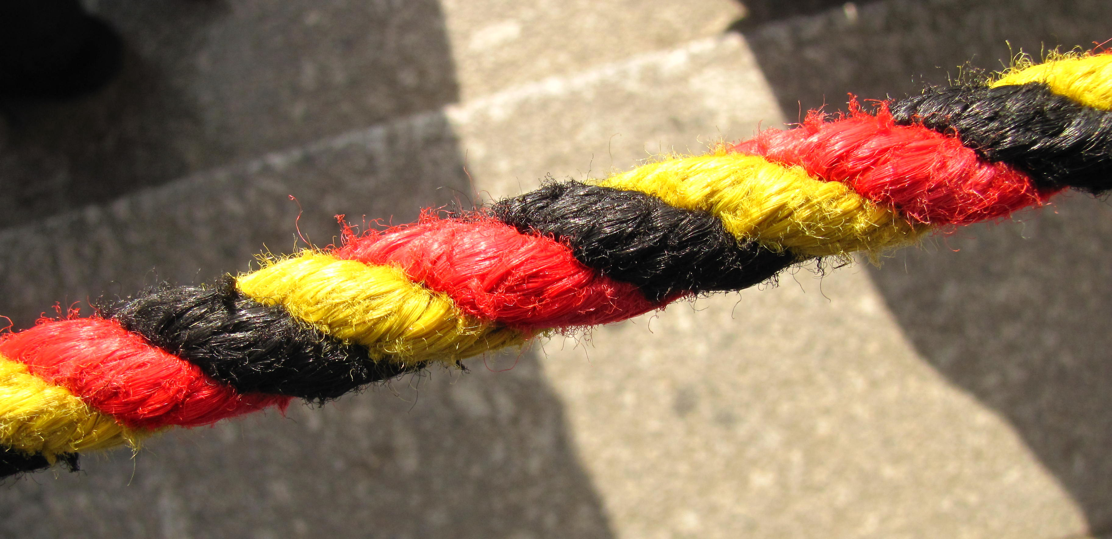 Black, Red and Gold barrier cord at the visitors' entrance to the German Bundestag (Parliament) at the Reichstag building in Berlin.